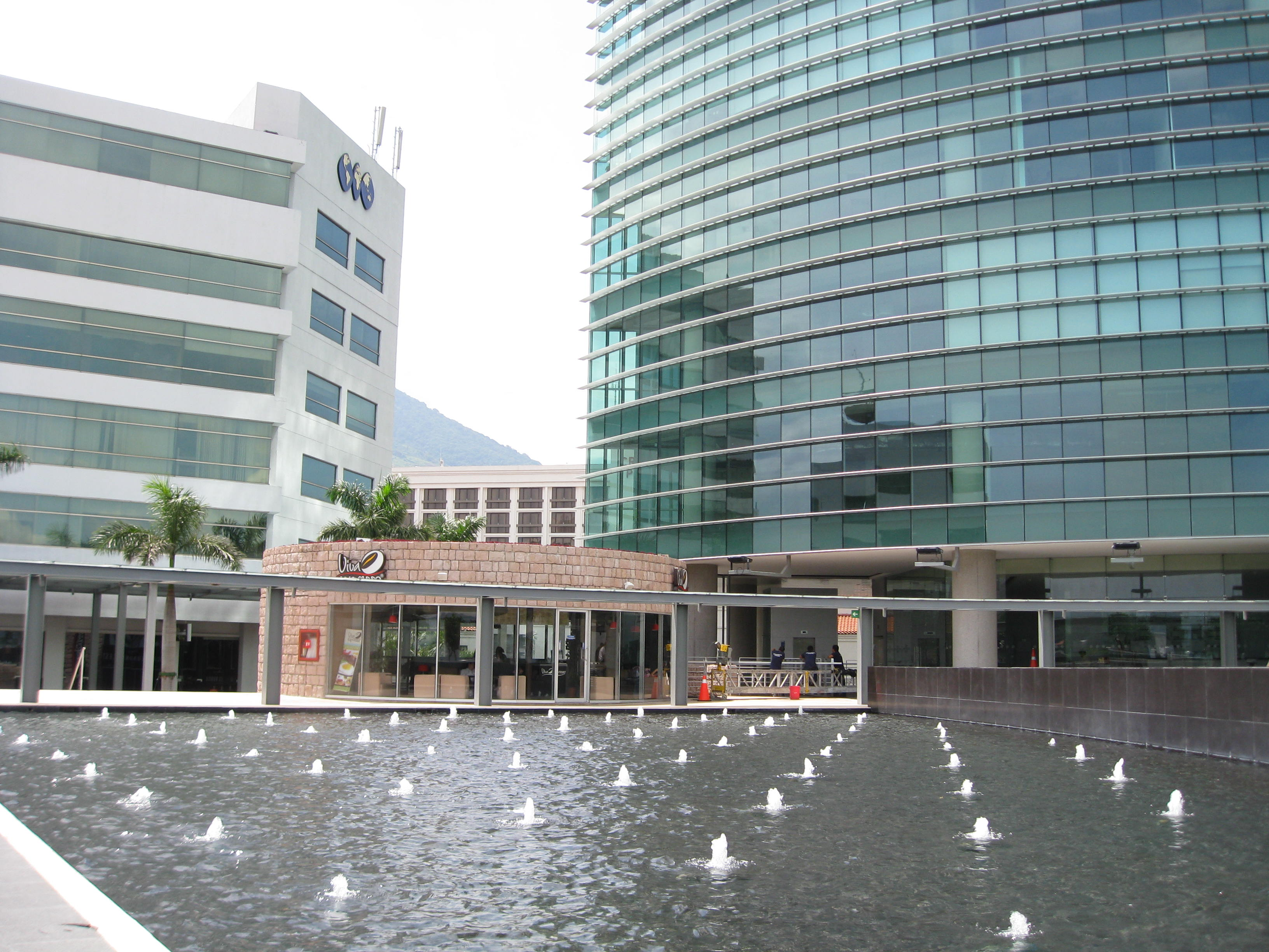 Plaza Futura Fountain at World Trade Center San Salvador